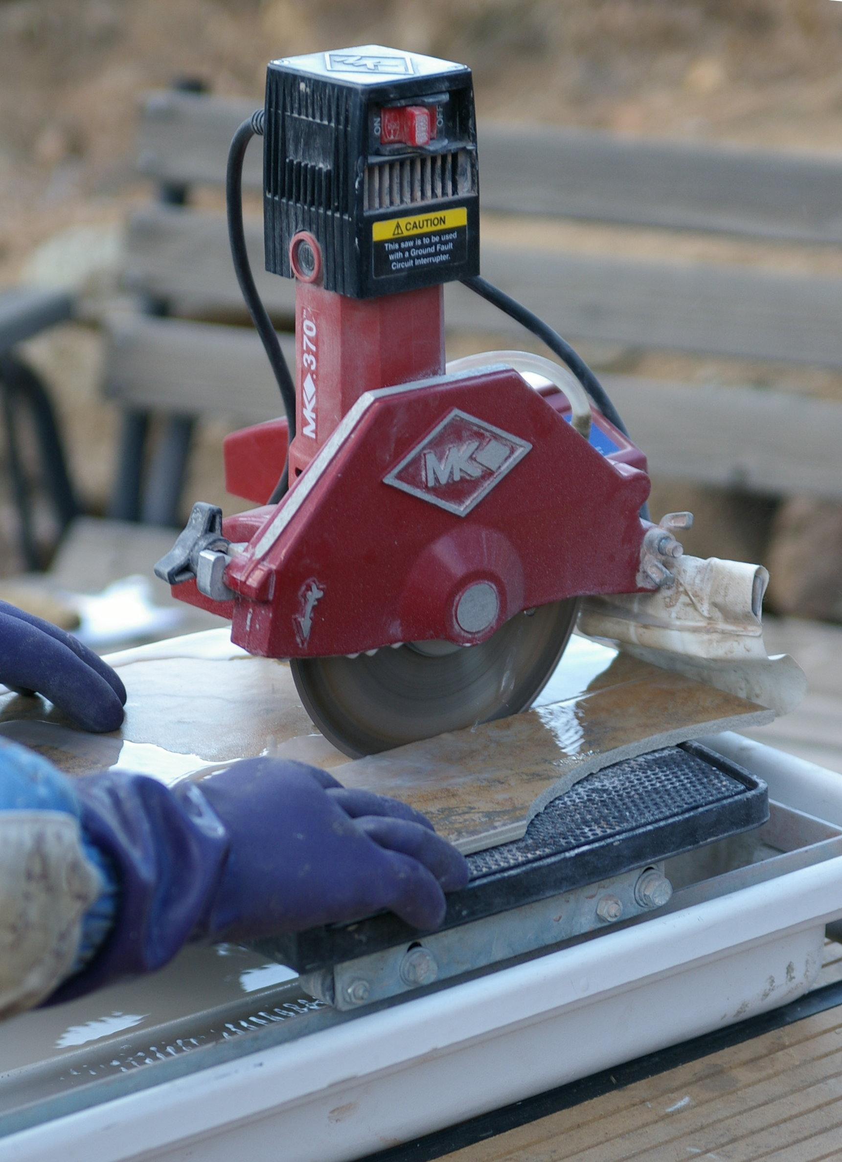 A tile saw with a water cooled diamond blade cutting a tile. Water is provided by a submersible pump in a bucket of water.